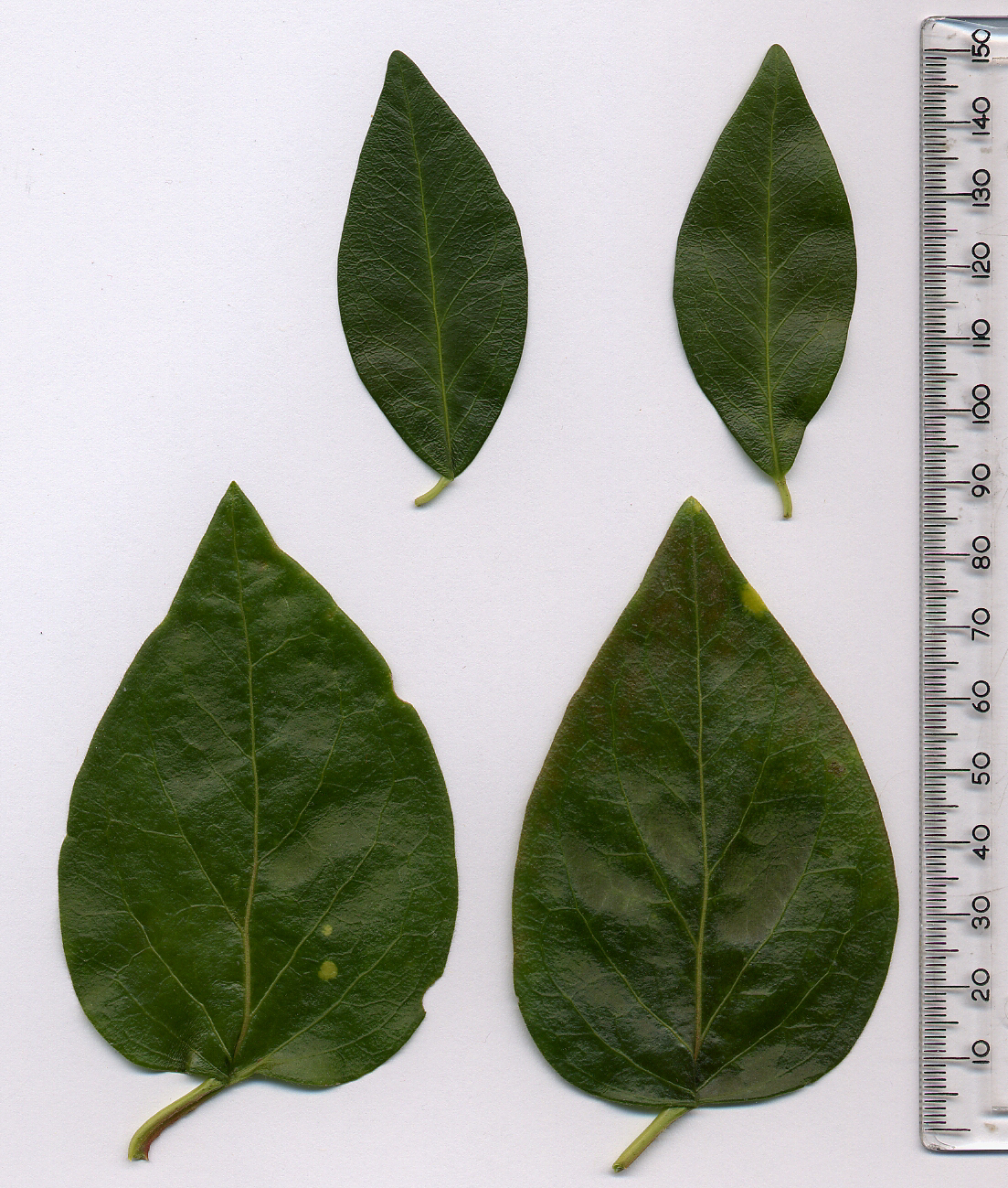 Vinca minor (above), Vinca major (below); leaves for comparison.